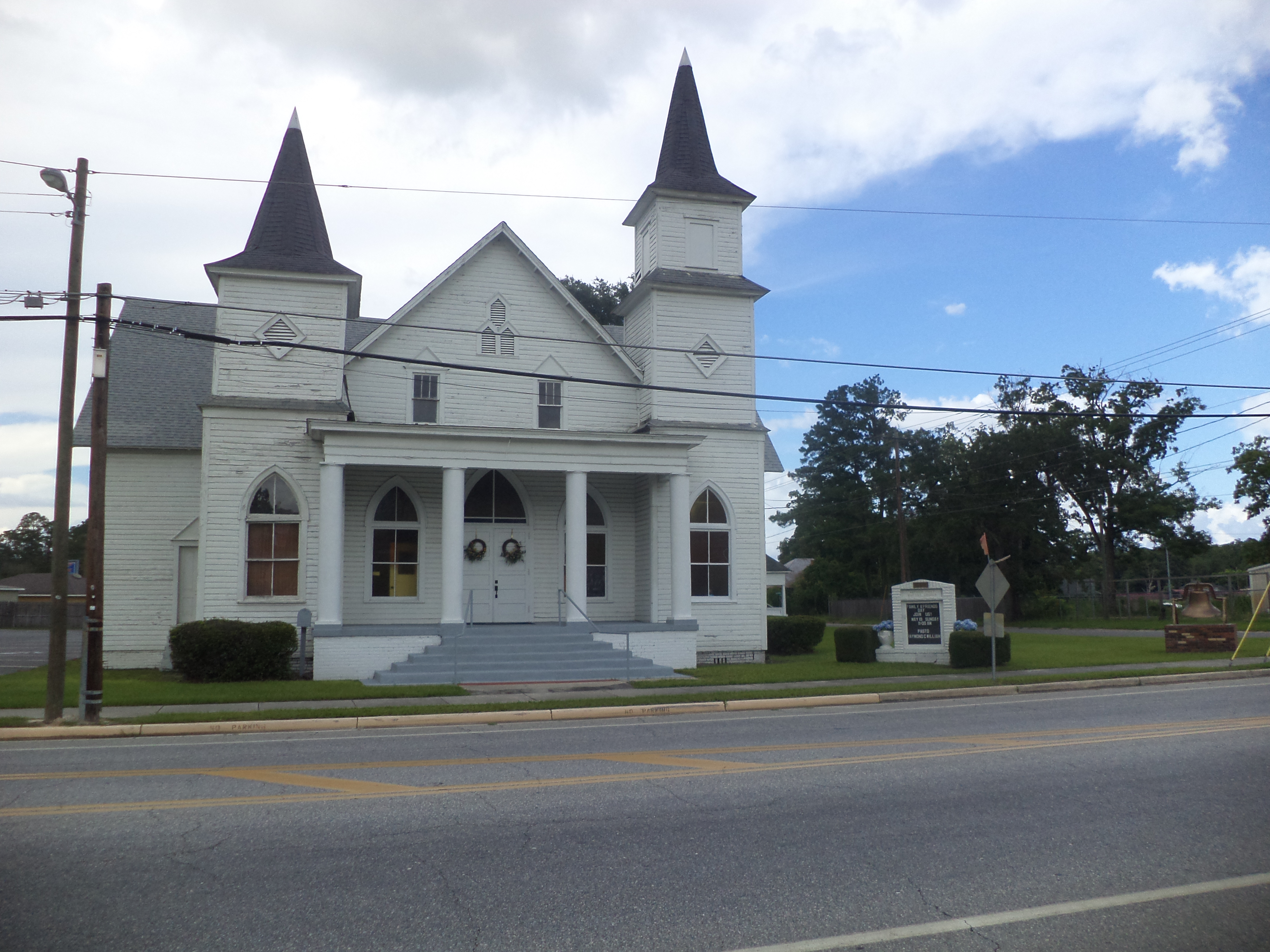 First African Baptist Church & Parsonage, Knight Ave, Waycross, Ware County, Georgia